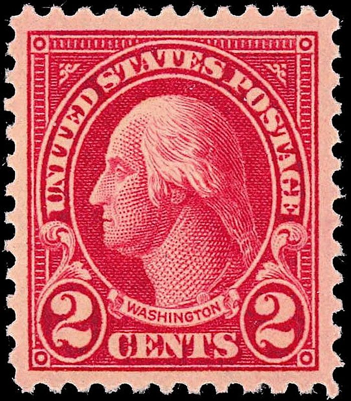 US Postage stamp: George washington, Issue of 1923, 2c